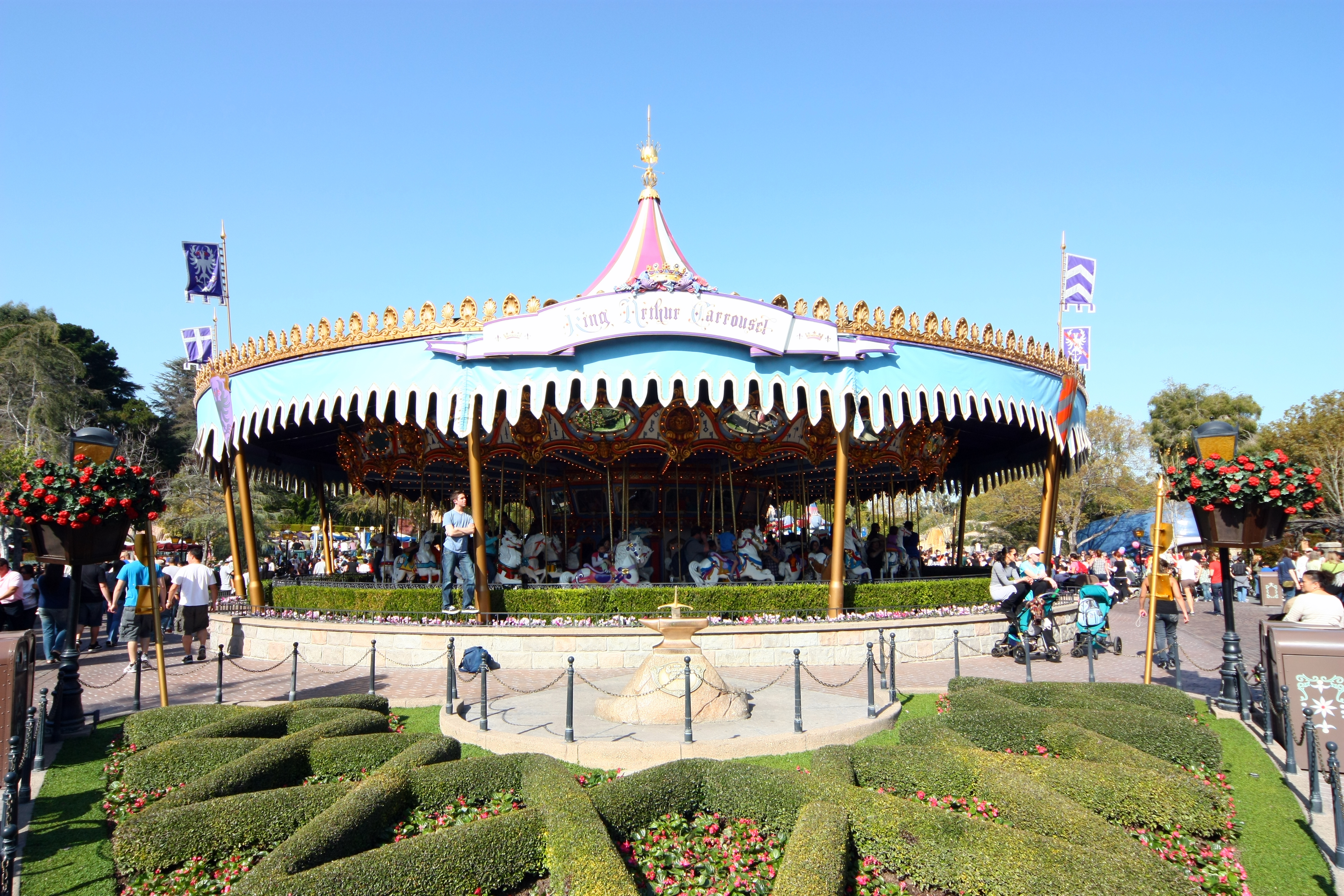 King Arthur's Carrousel at Disneyland Park.